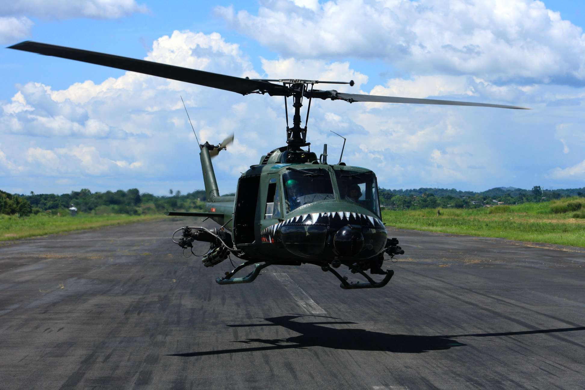 Bell UH-1 Iroquois of the El Salvador Air Force